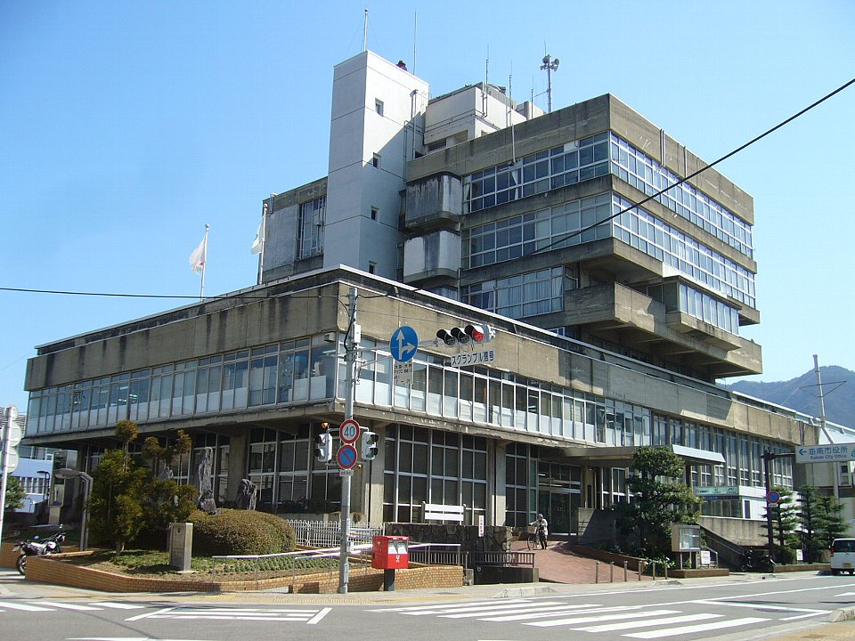 Kainan City Hall in Wakayama Prefecture, Japan